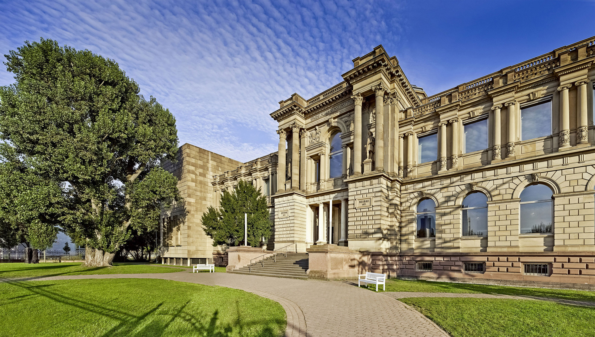 The Städel Museum at the Schaumainkai in Frankfurt/Main.